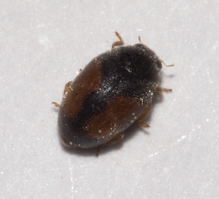 Please report references to kulacgmx.at.